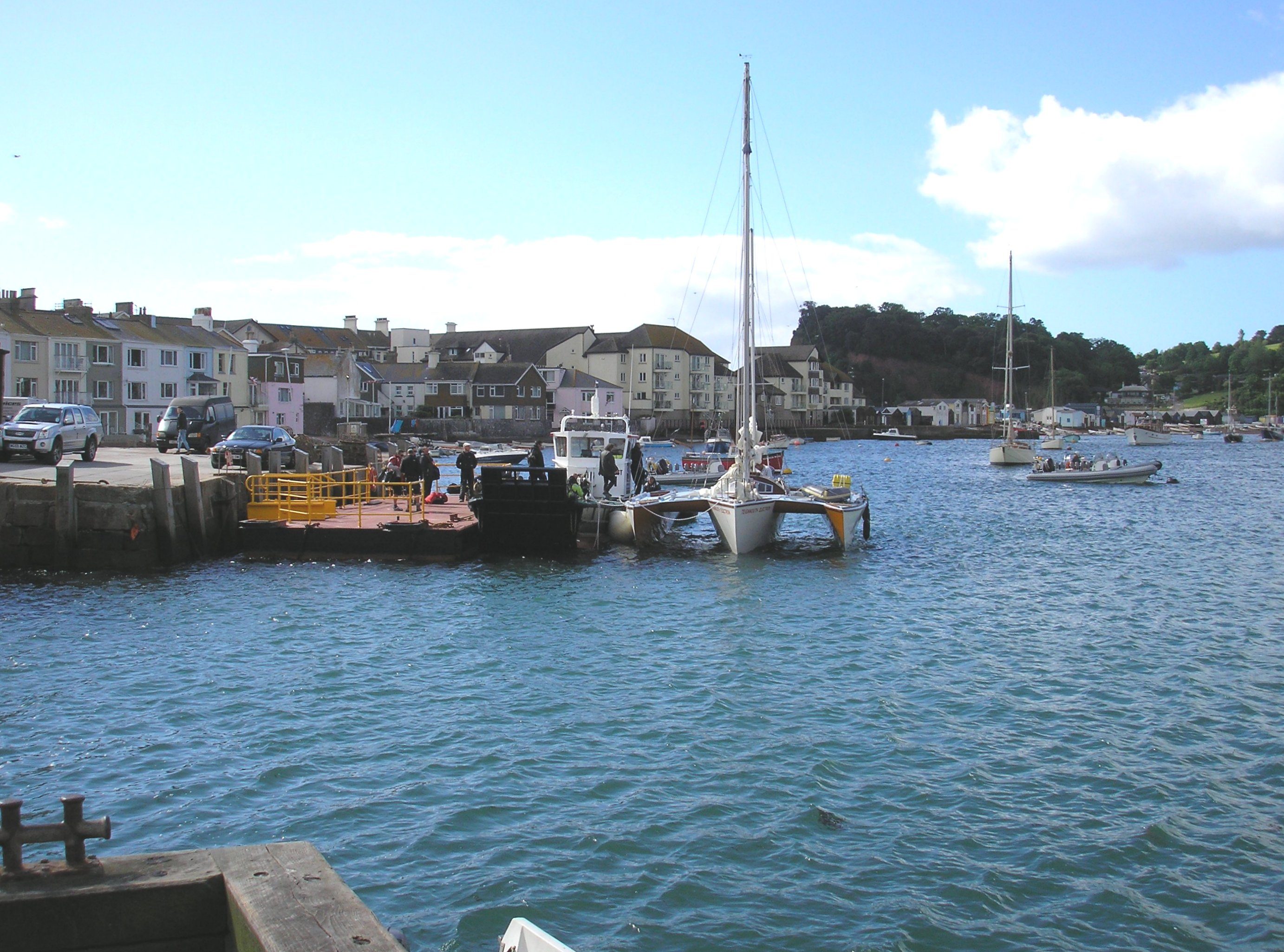 Movie props moored on the River Teign in Teignmouth as shooting takes place in the port for a movie ("The Mercy") about the yachtsman Donald Crowhurst. Moored against the wharf is a full scale replica of Crowhurst's trimaran yacht, "Teignmouth Electron", specially constructed for the movie. Camera: Olympus FE-120 digital compact.